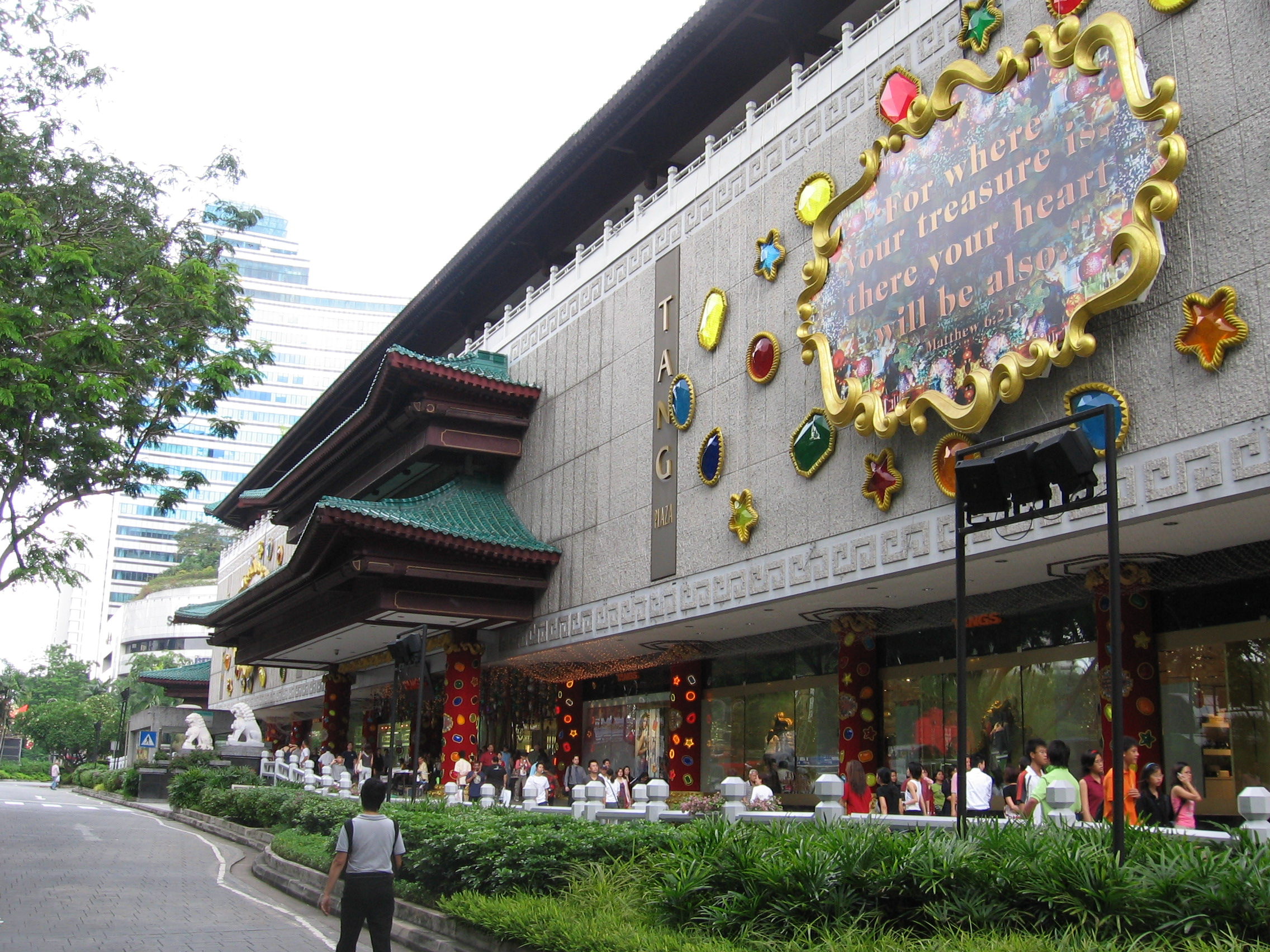 Christmas decorations at Tang Plaza, Singapore.